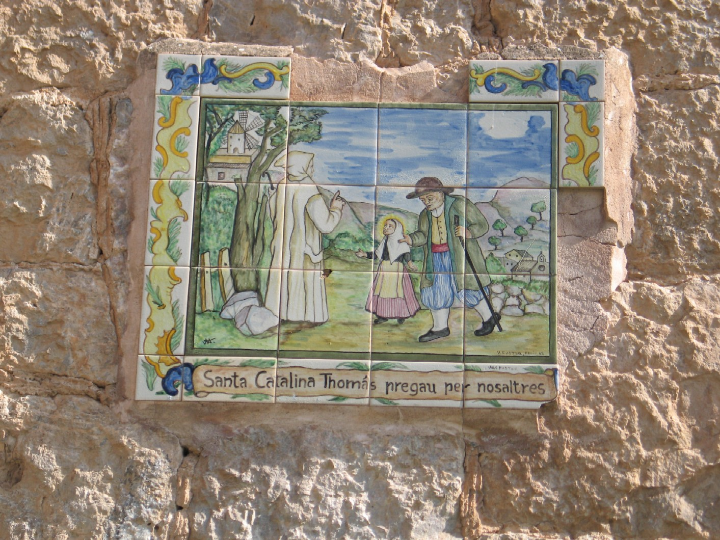 Santa Catalina Thomas